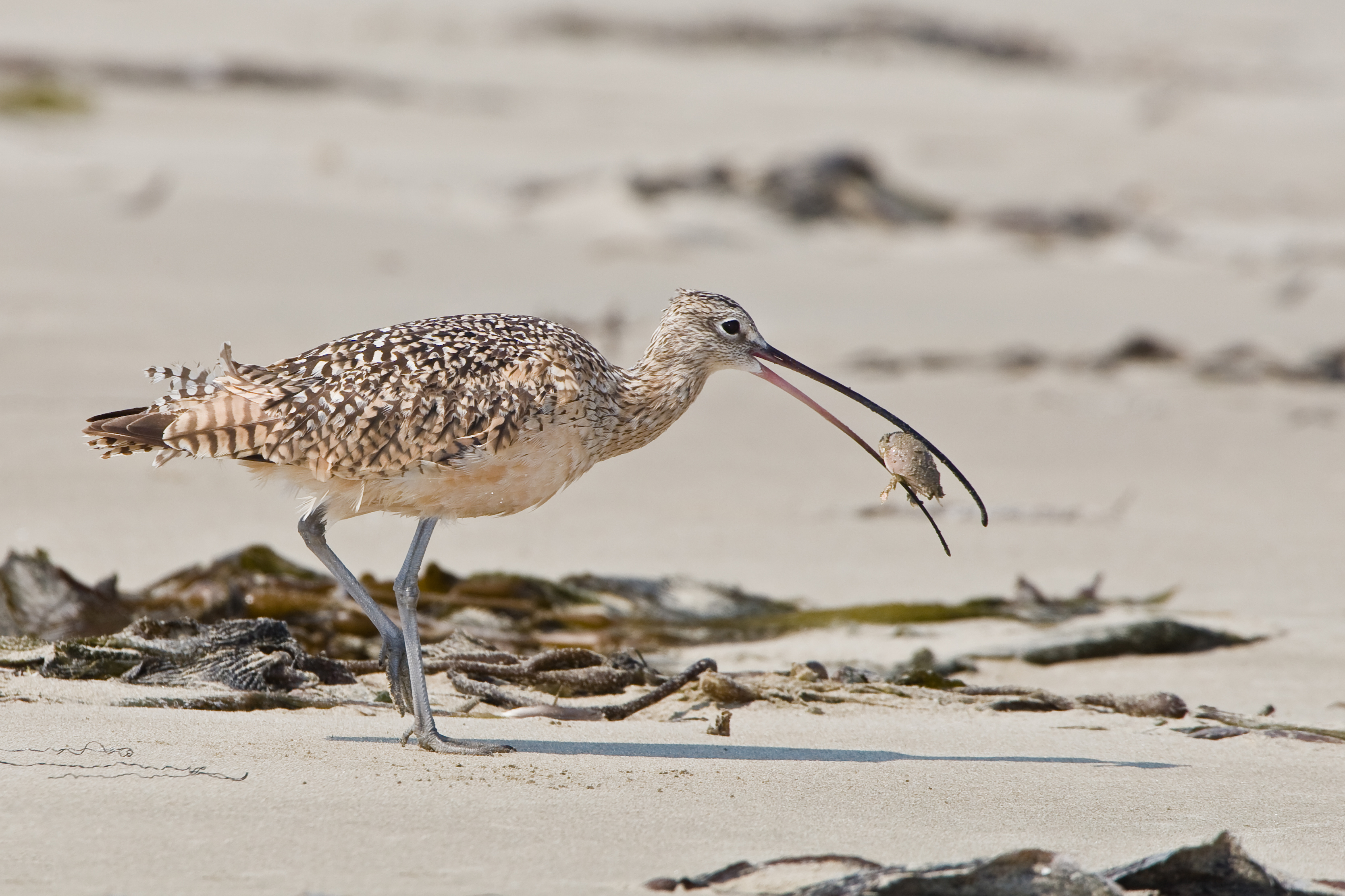 Long-billed Curlew (Numenius americanus), eating a sand crab on Morro Strand State Beach, Morro Bay, CA 17 July 2008. Michael "Mike" L. Baird, Canon 1D Mark III 300mm f/2.8 2XTE taken from ground level with panning ground pod and Canon Angle Finder C for Canon EOS SLR Cameras, and Better Beamer Flash +2v.